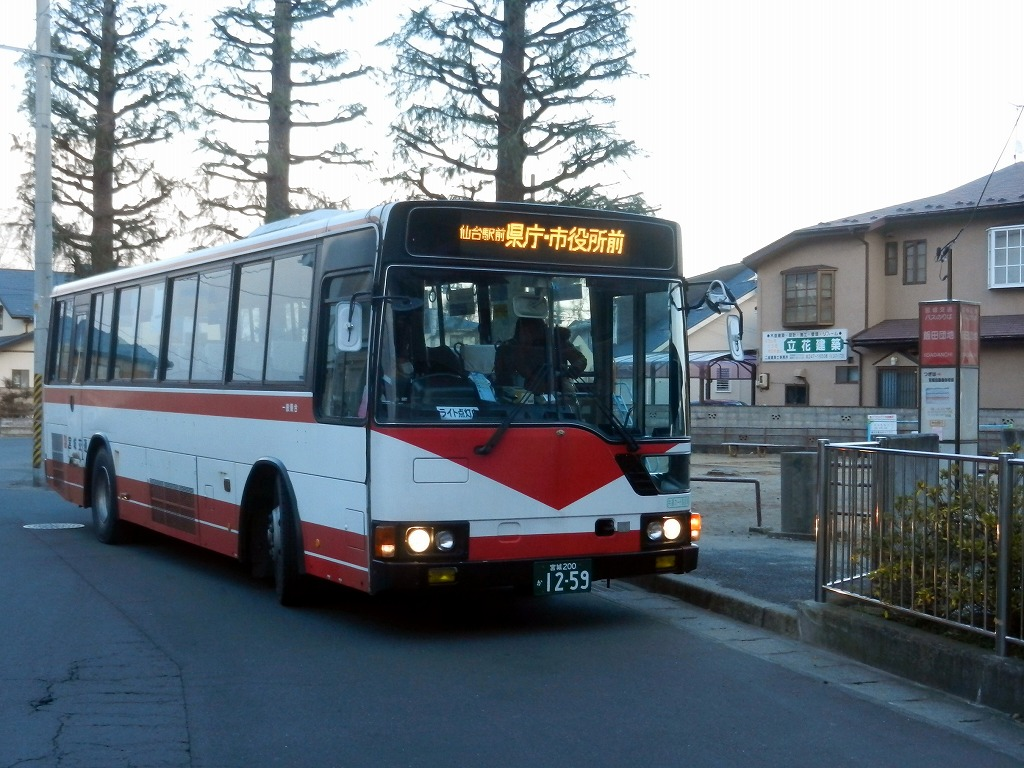 Miyagi Kotsu bus at Iida danchi bus stop (Taihaku ward,Sendai city)